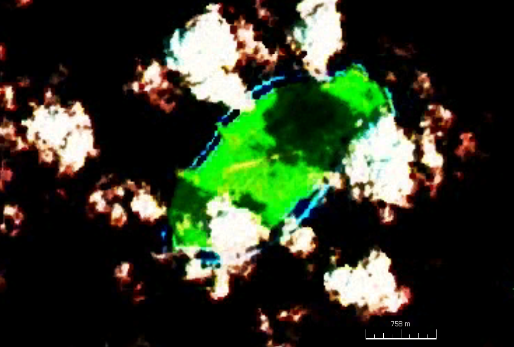 Fais Island, Yap State, Micronesia, Caroline Islands, Pacific Ocean: Layer Geocover 2000, partly obscured by clouds or shadows of clouds